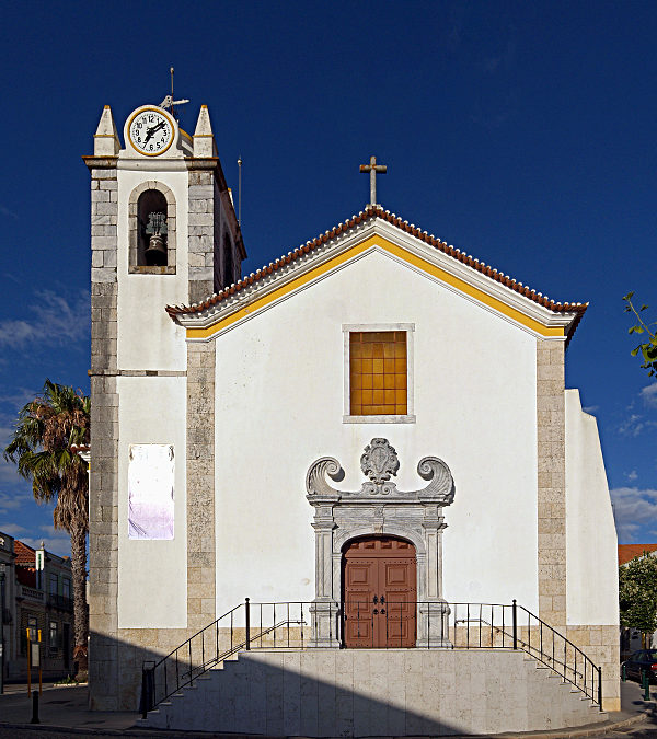 Church of Nossa Senhora da Assunção, Ferreira do Alentejo